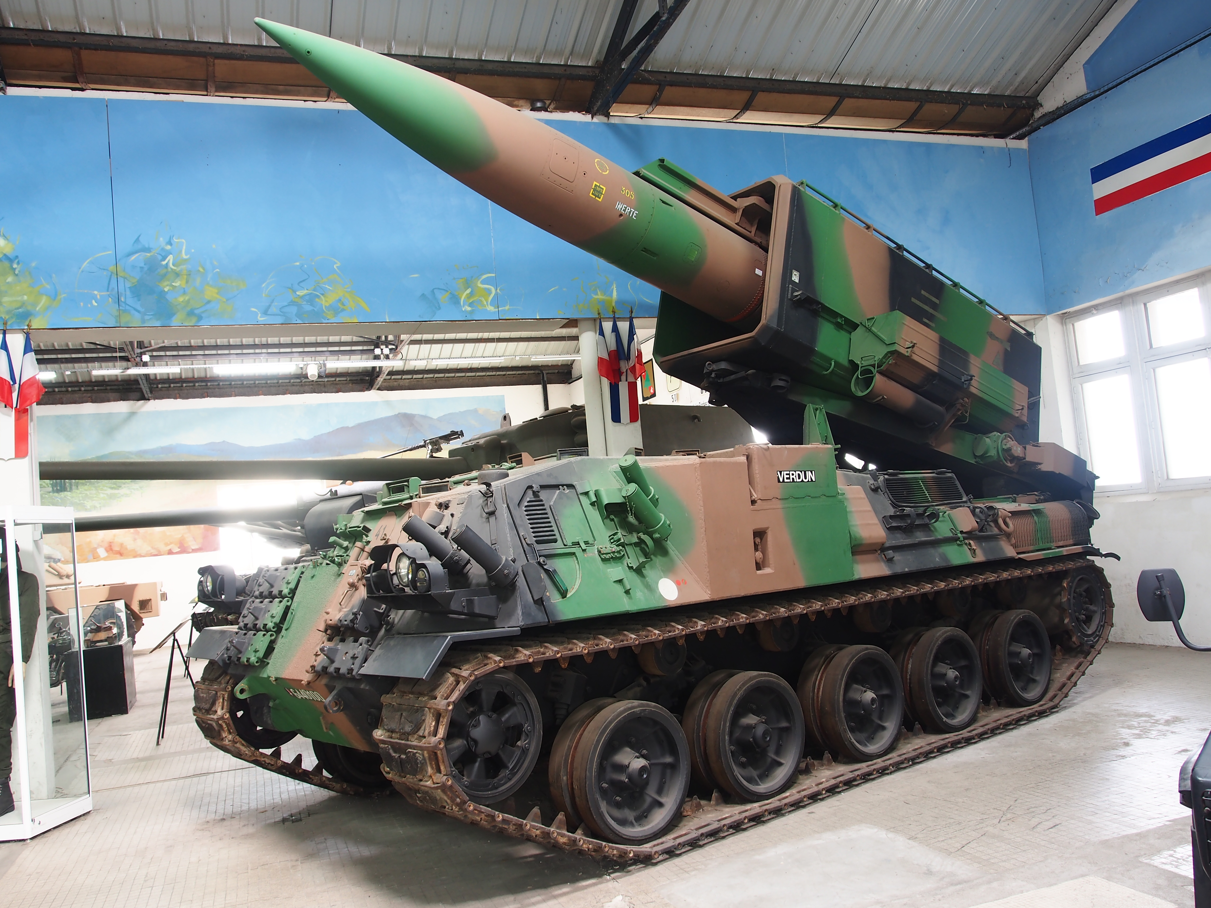 Photographed in the Musée des Blindés, France.